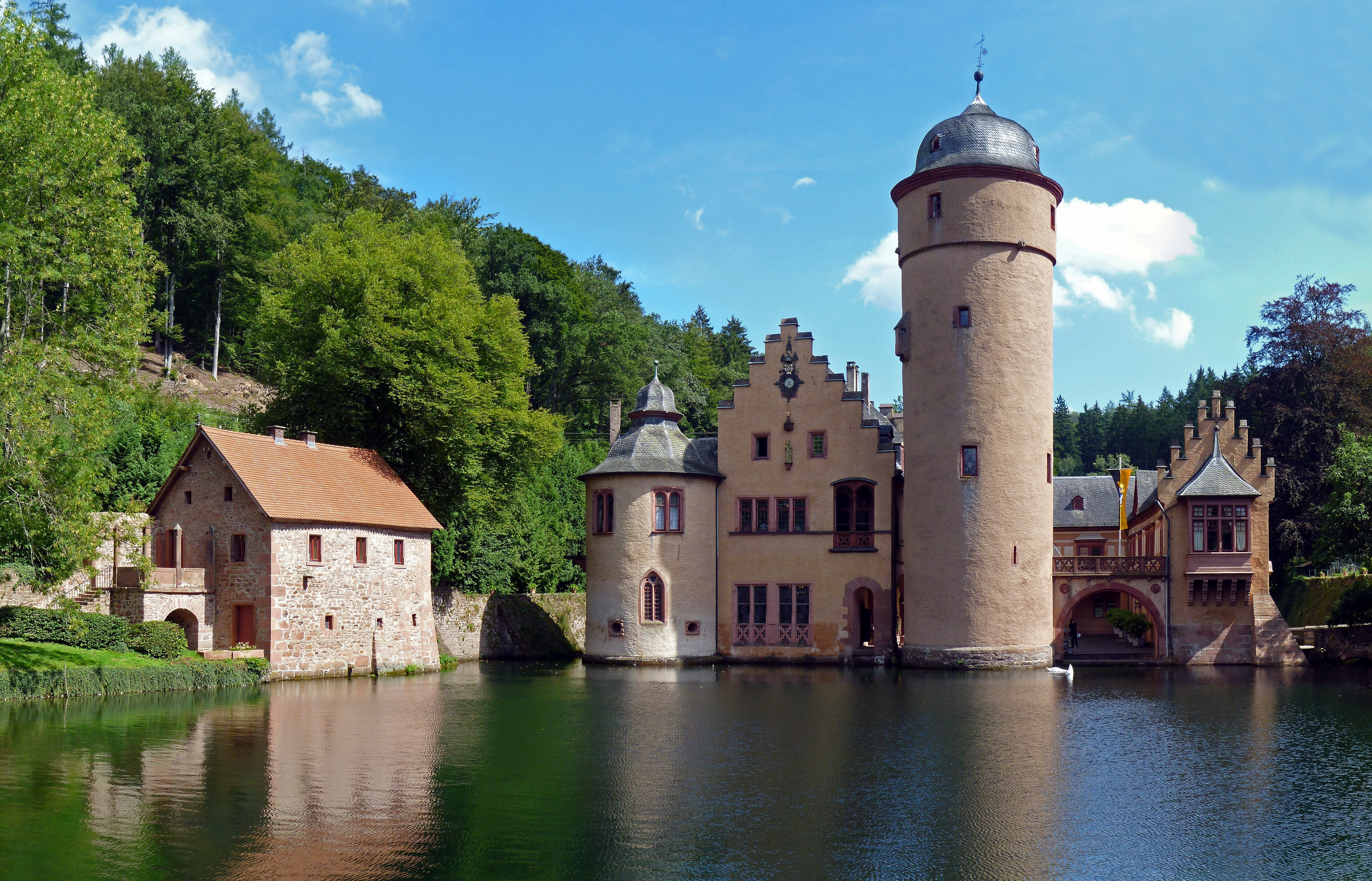 The Mespelbrunn Castle, a moated castle on the territory of the town of Mespelbrunn, is situated remotely in the Elsava valley in the Spessart (between Frankfurt and Würzburg). Since the early 15th century it has been owned by the family Echter of Mespelbrunn. The oldest parts were built in 1427, the current appearance was created from 1551 to 1569. The castle was location of the 1958 German comedy film The Spessart Inn with the the famous German cinema actress Liselotte Pulver. Consequently it gained nationwide popularity. It is one of the most visited moated castles in Germany and is frequently featured in tourist books. The annual numbers of visitors are just under 100,000.